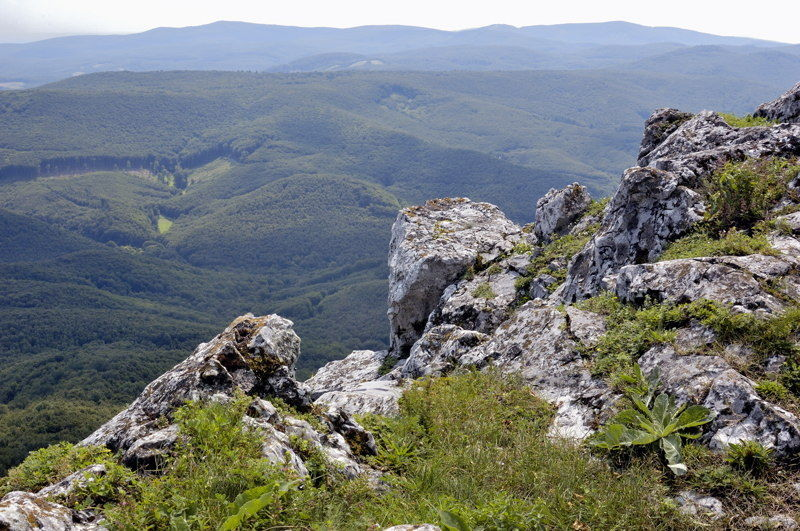 View from mount Vápenná (Roštún)